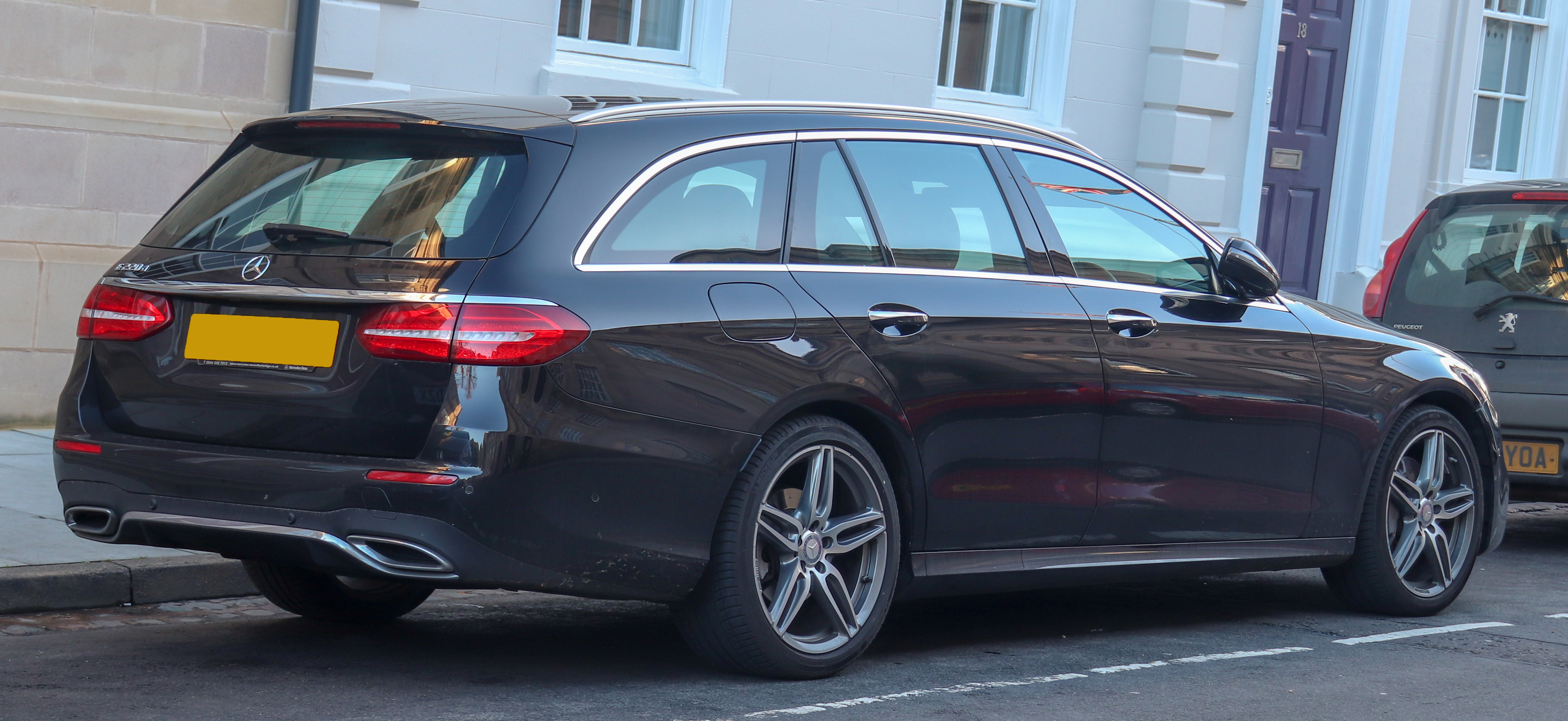 2017 Mercedes-Benz E220d AMG Line Premium Estate 2.0 Rear Taken in Warwick